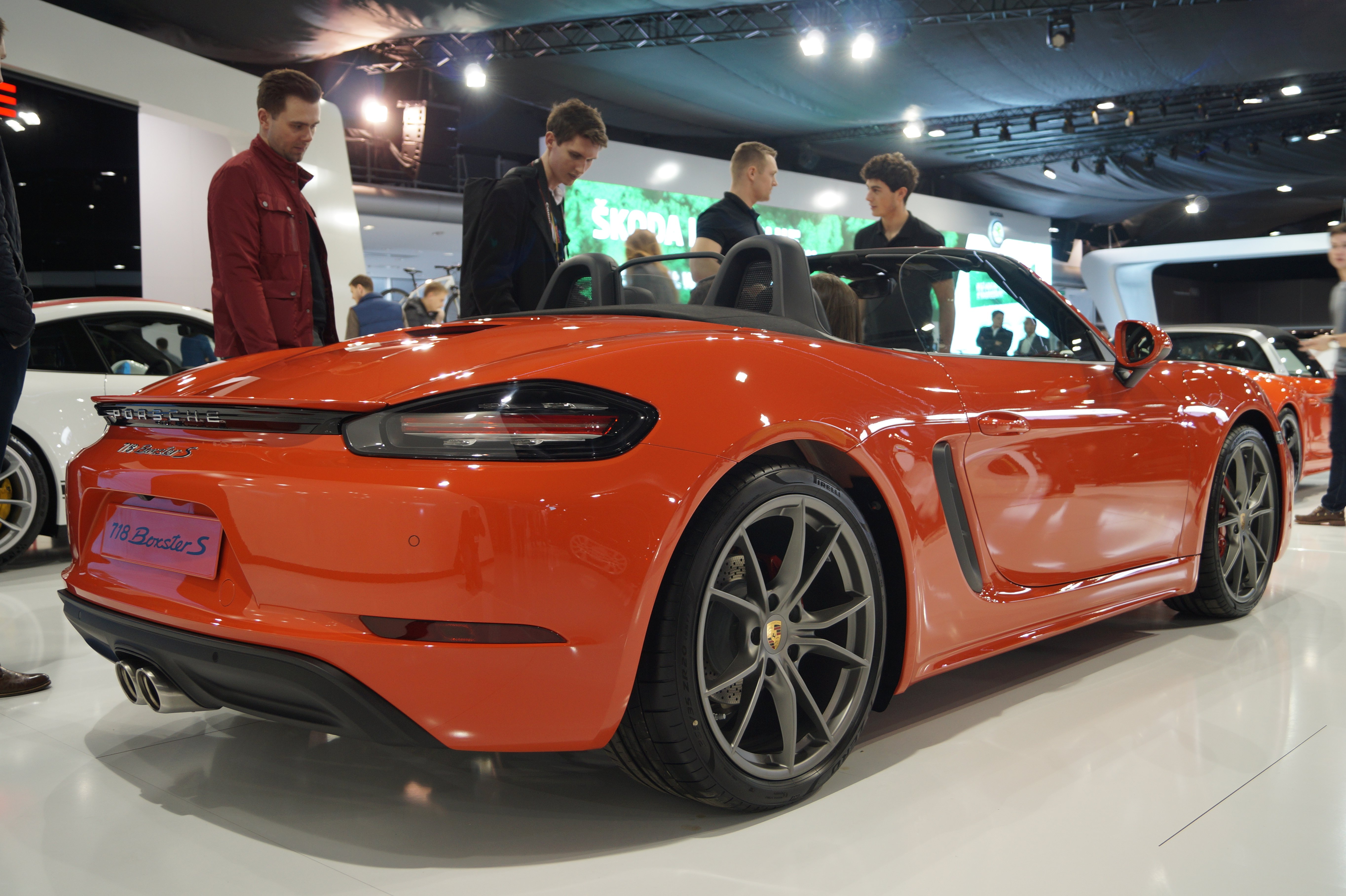 The making of this document was supported by Wikimedia Polska Association, within Wikigrant no. WG 2016-10. Przód Porsche 718 Boxster S na Motor Show Poznań 2016